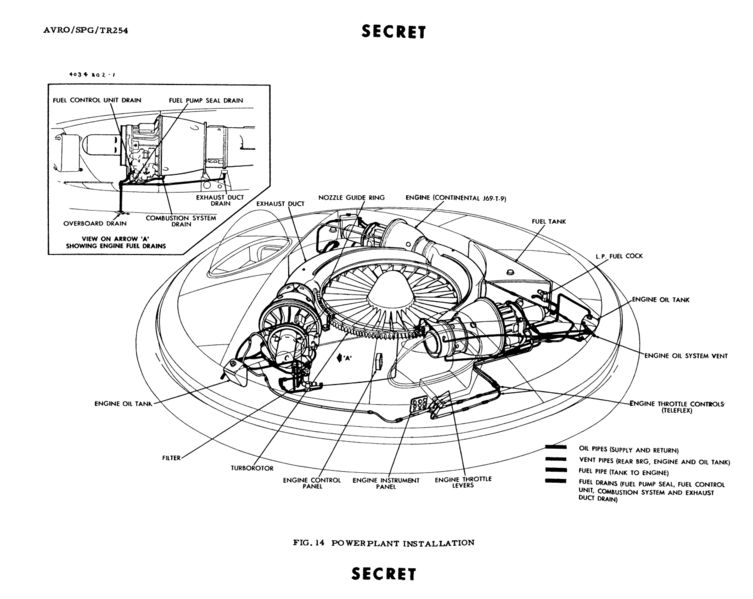 Avrocar schematic